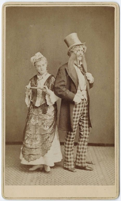 Author/Creator: Abell, Frank George, Jr., 1844-1910. Abell & Welsh. Welsh, John Oliver, ca. 1840-ca. 1913. Part of: Carl Mautz collection of cartes-de-visite photographs created by California photographers. Physical Description: 1 photographic print cartes-de-visite, b&w approx. 9 x 5.3 on mount 10.5 x 6.4 cm. Folder or box number: Folder Abell & Welsh Genre/Form: Photographs Cartes-de-visite Photographic prints Studio portraits Cite as: Yale Collection of Western Americana, Beinecke Rare Book and Manuscript Library Repository: Beinecke Rare Book & Manuscript Library, Yale University Bibliographic Record Number: 2015158 Call Number: WA Photos 357 View our Record: Permalink Flickr data on 2011-08-25: License: CC BY-SA 2.0 User: Beinecke Library